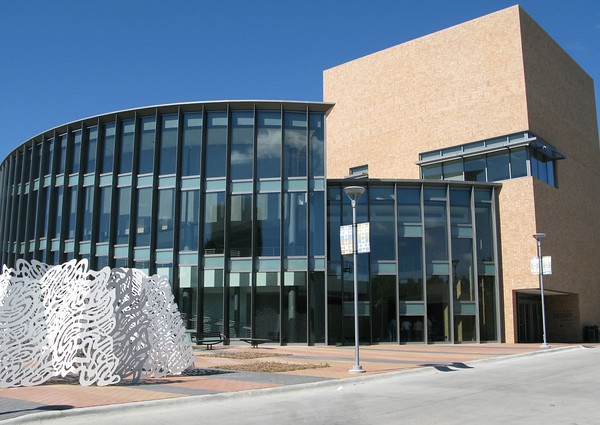 View of the International Quilt Study Center & Museum at the University of Nebraska-Lincoln, USA, 33rd and Holdrege, looking southwest. In the foreground is the sculpture "Reverie" by Linda Fleming.